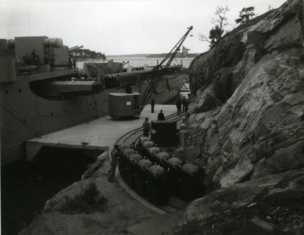 The Swedish cruiser HMS Göta Lejon is loading mines from an underground storage facility.